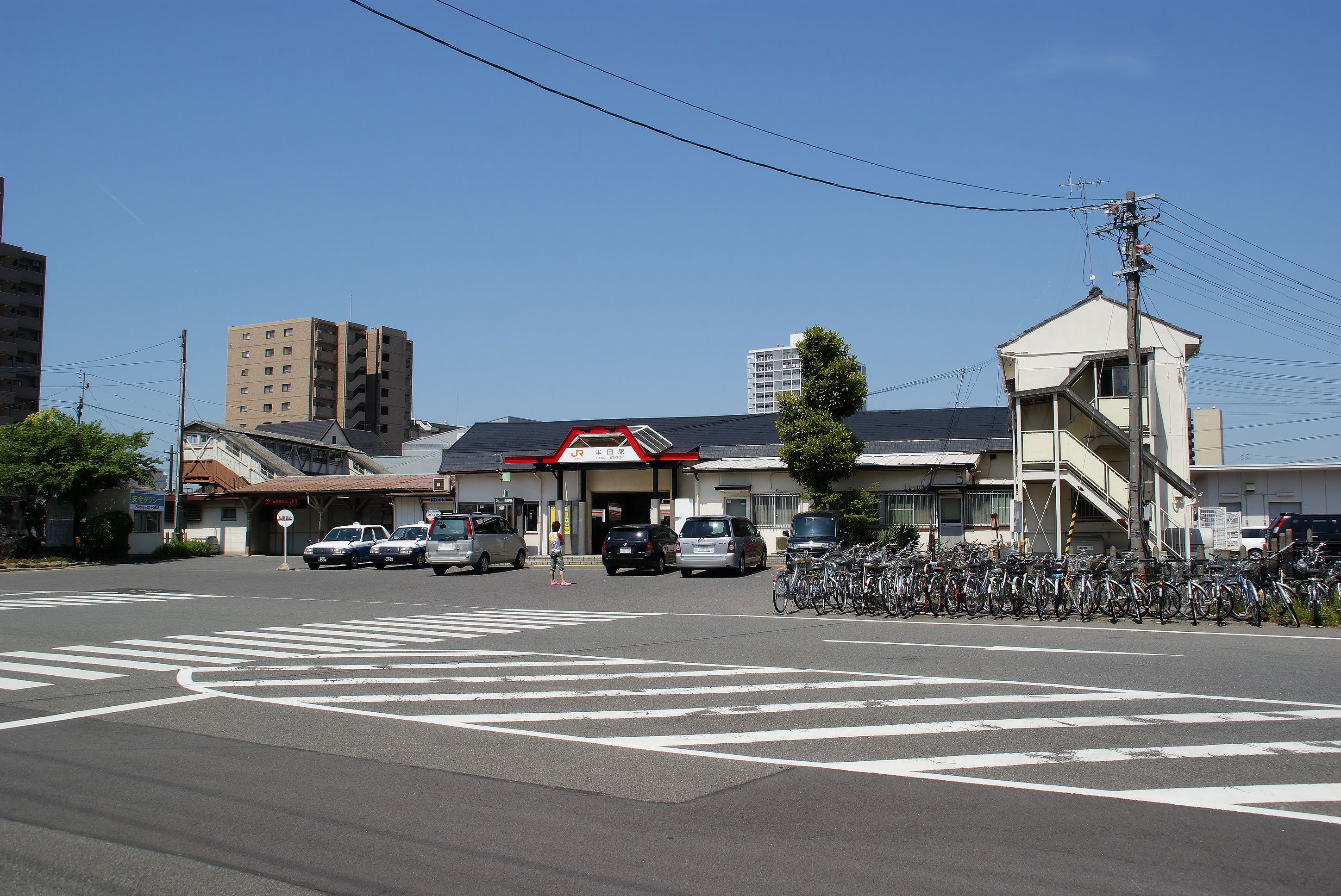 Central Japan Railway, Handa Station.(Handa City, Aichi Prefecture, Japan)